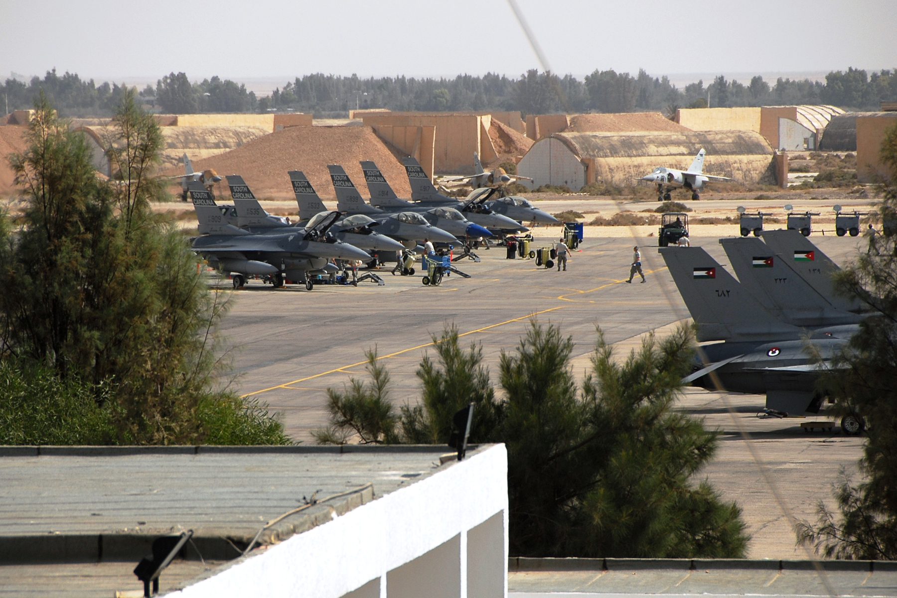 F-16 Fighting Falcon aircraft of the Air Forces of Jordan and the United States at Muwaffaq Salti Air Base, Azraq, Jordan.